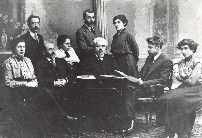 Najaf bey Vazirov with teachers in Baku